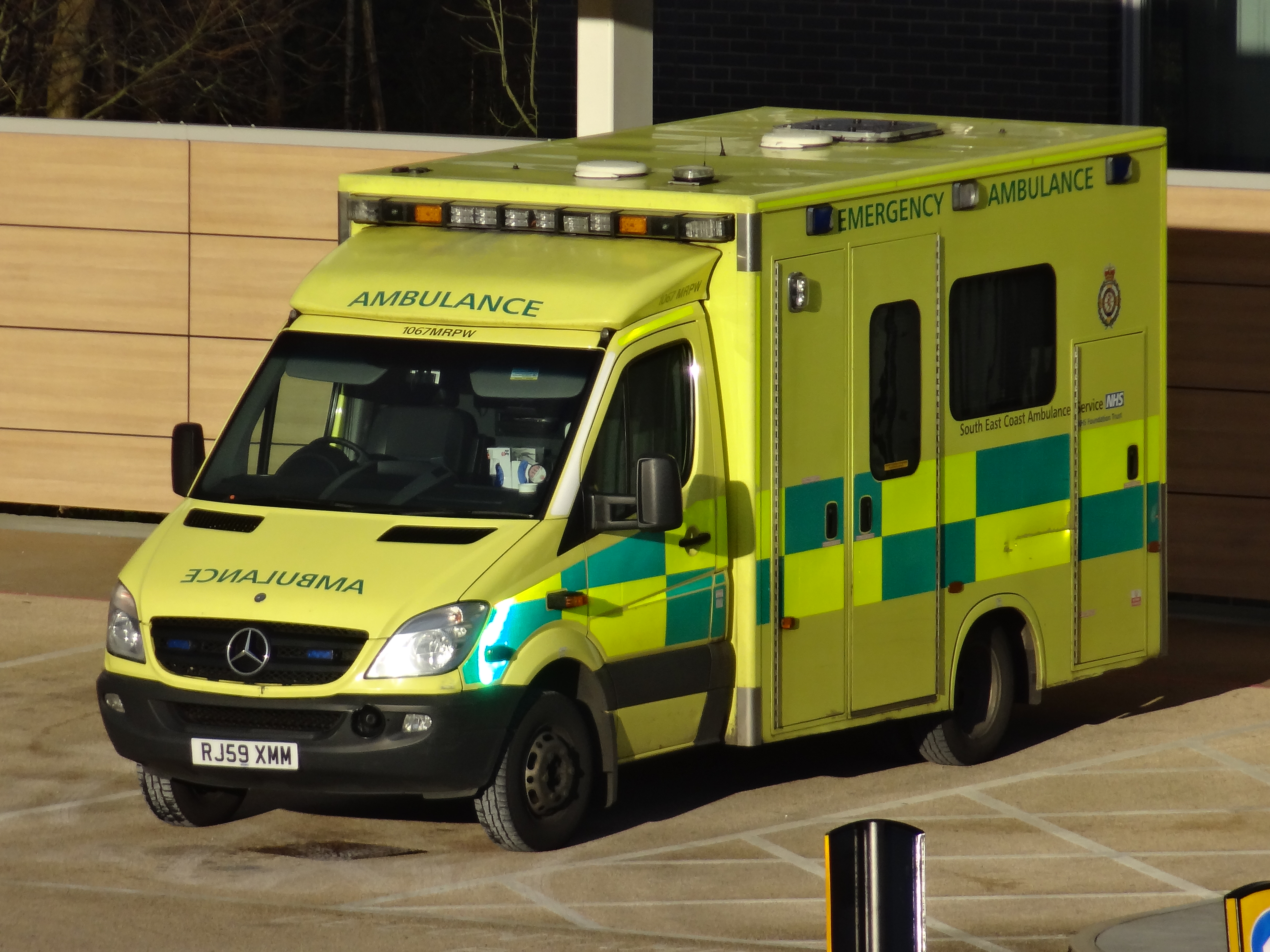 PEMBURY HOSPITAL TUNBRIDGE WELLS